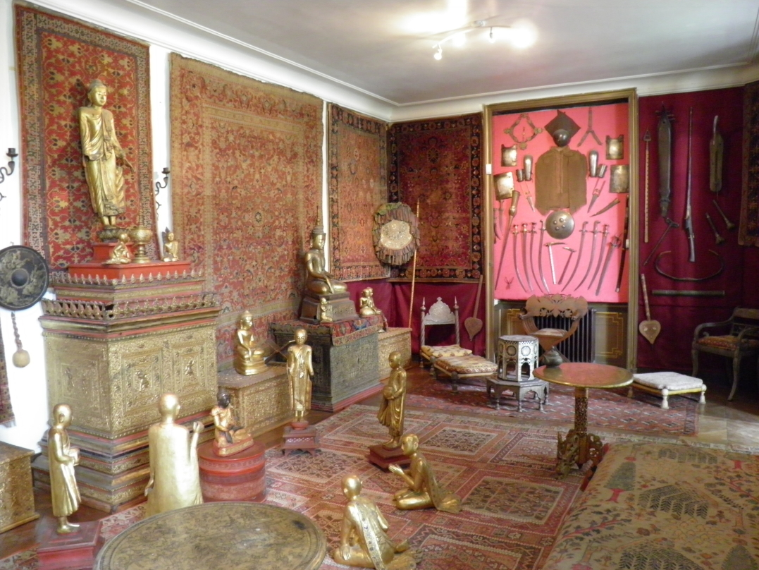 Oriental Room. Musée Jacquemart-André in Chaalis Abbey.